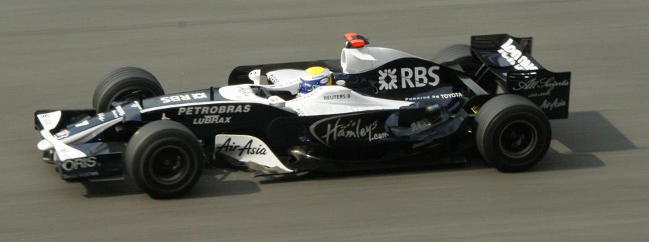 Nico Rosberg driving for WilliamsF1 at the 2008 Malaysian Grand Prix.